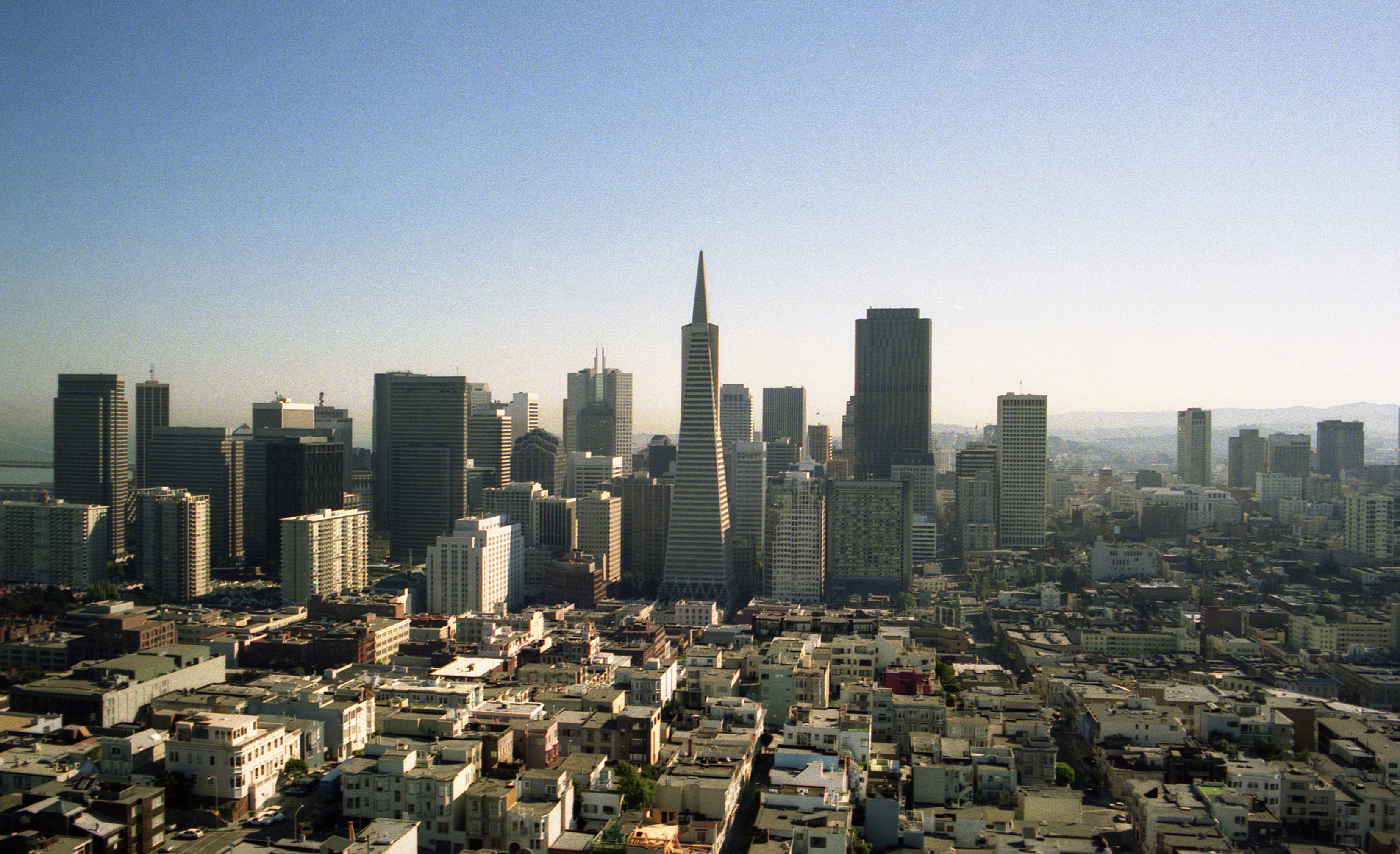 San Francisco financial district from Coit Tower Scan of a negative